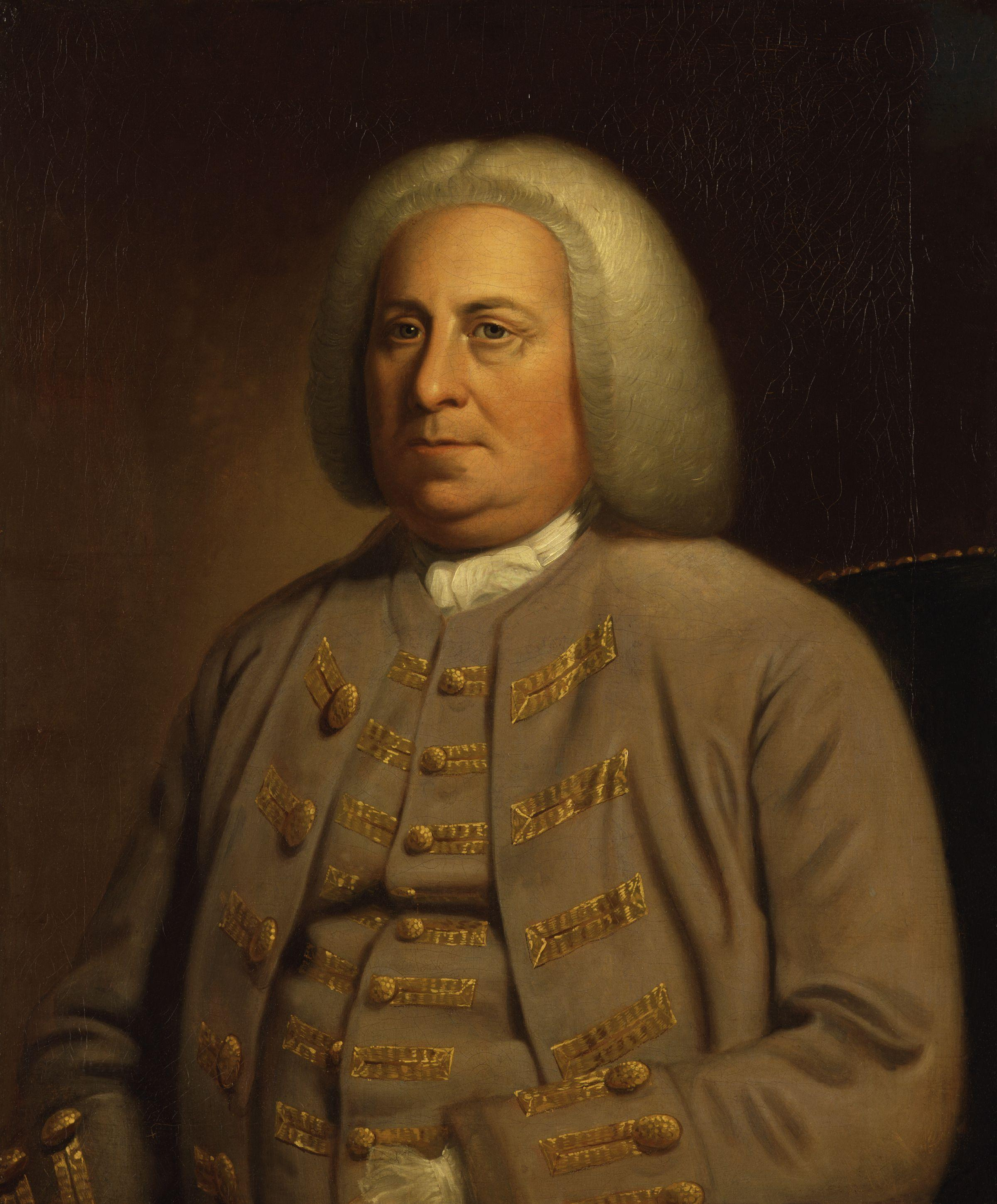 Virginia colonial governor Robert Dinwiddie All images in this batch are listed as "unknown author" by the NPG, who is diligent in researching authors, and was donated to the NPG before 1939 according to their website.